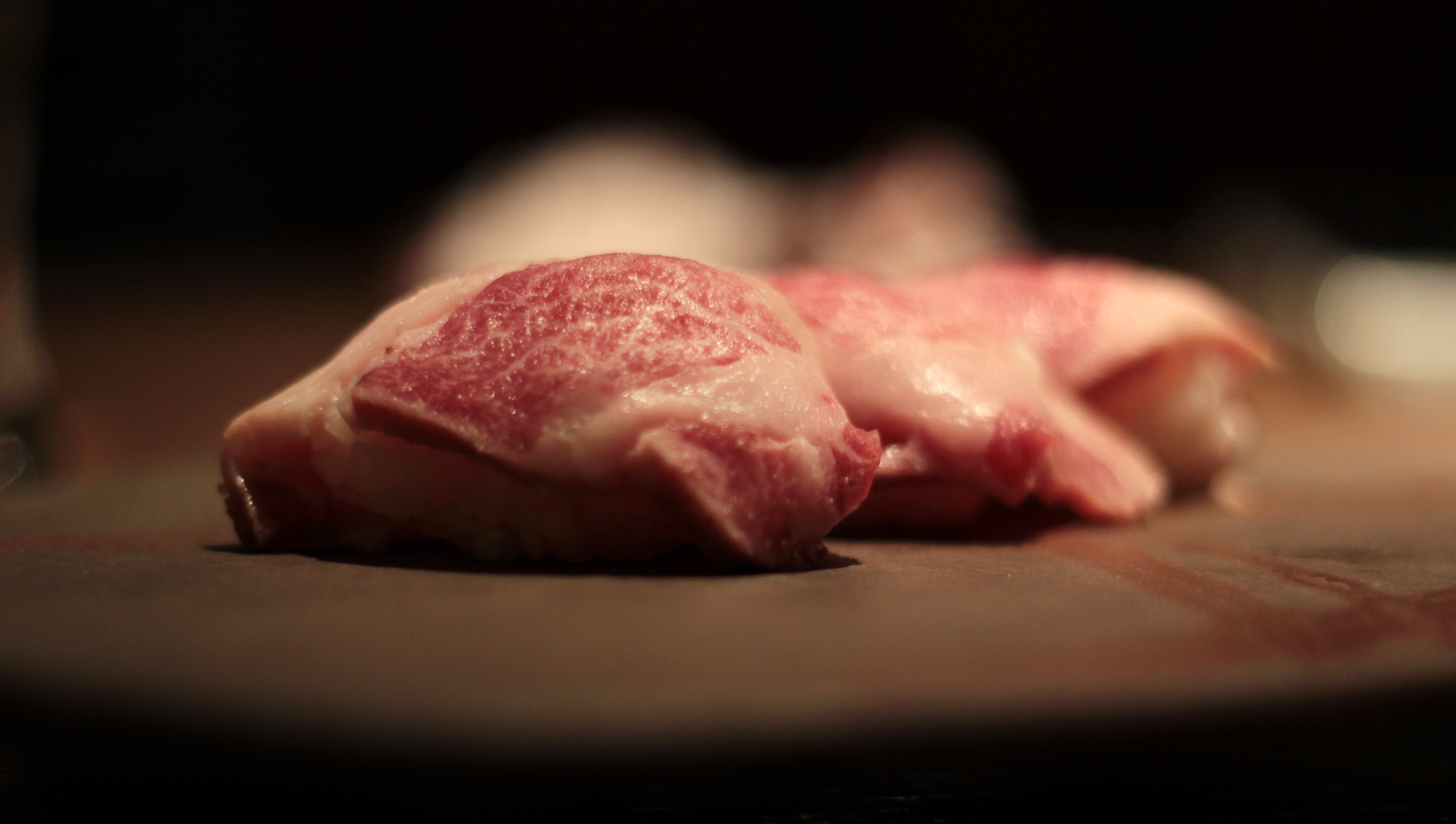 An Iberian pork nigirizushi